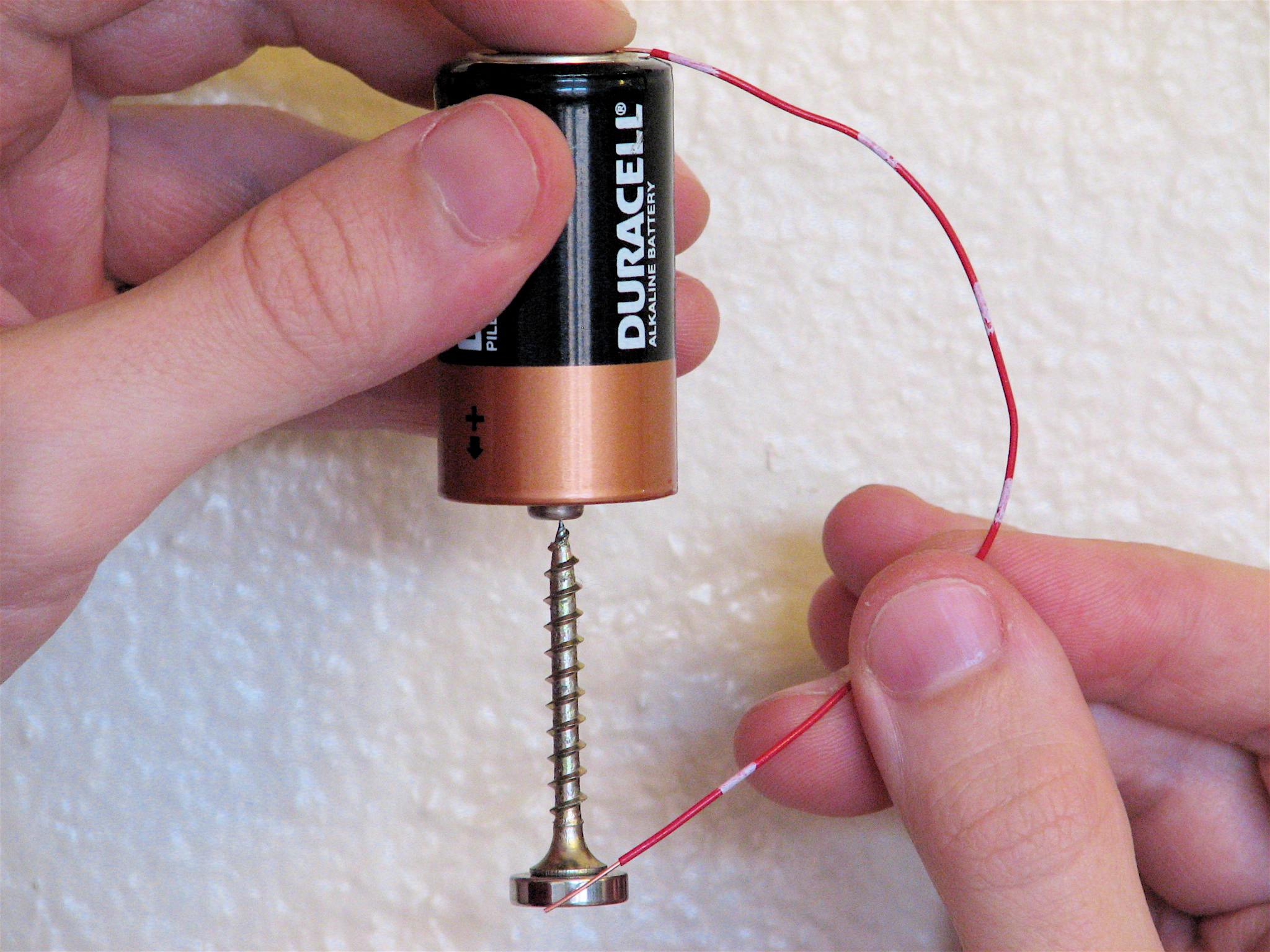 Construction of a simple homopolar electric motor. A neodymium disk magnet is attched to a ferromagnetic screw that is suspended (by magnetic attraction) to one end of an alkaline cell. A wire connects the other terminal of the battery to the edge of the magnet, completing the circuit.